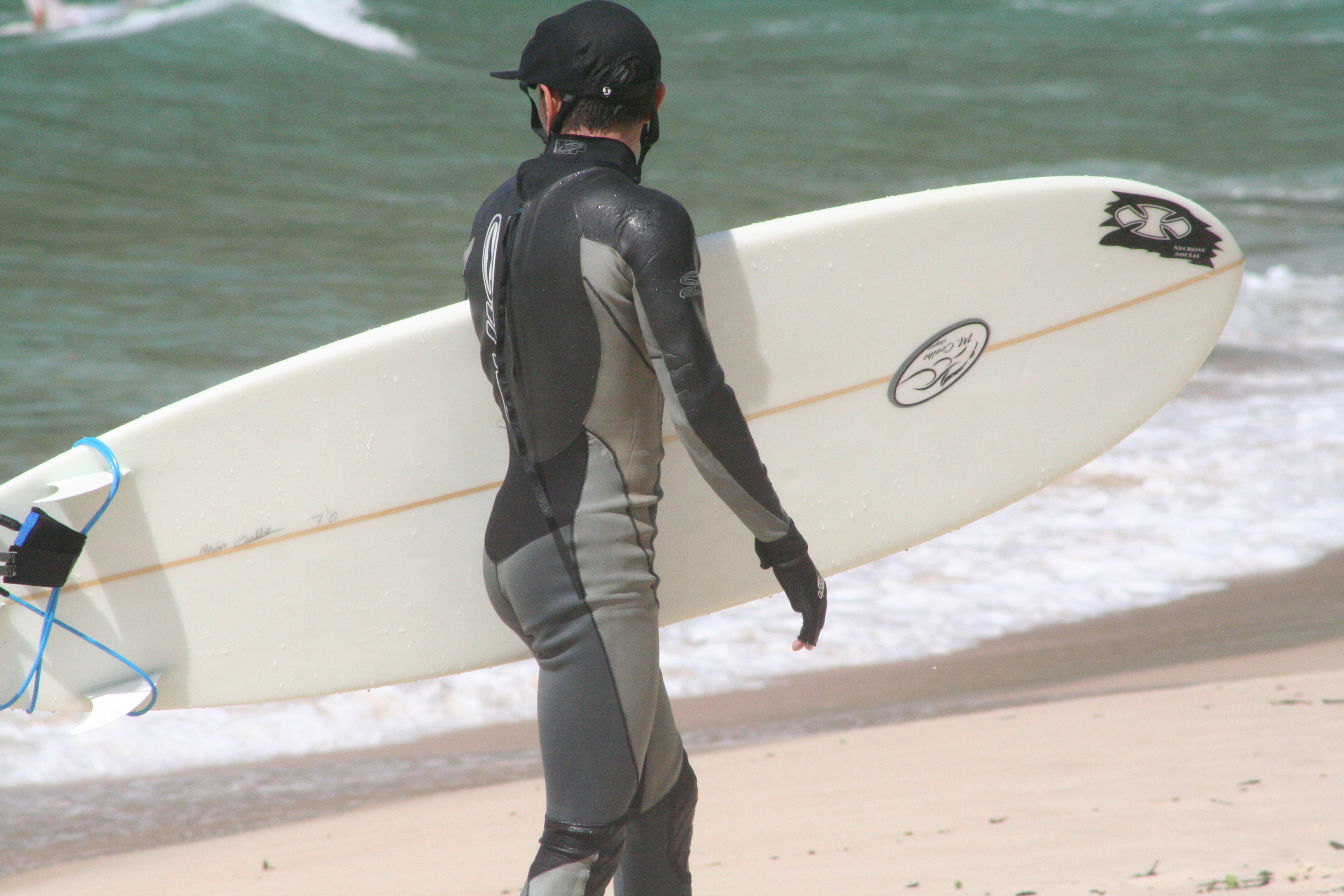 Surf, Surfing: A Surfer in a wetsuit carries his surfboard along the beach. Photo by Johntex.